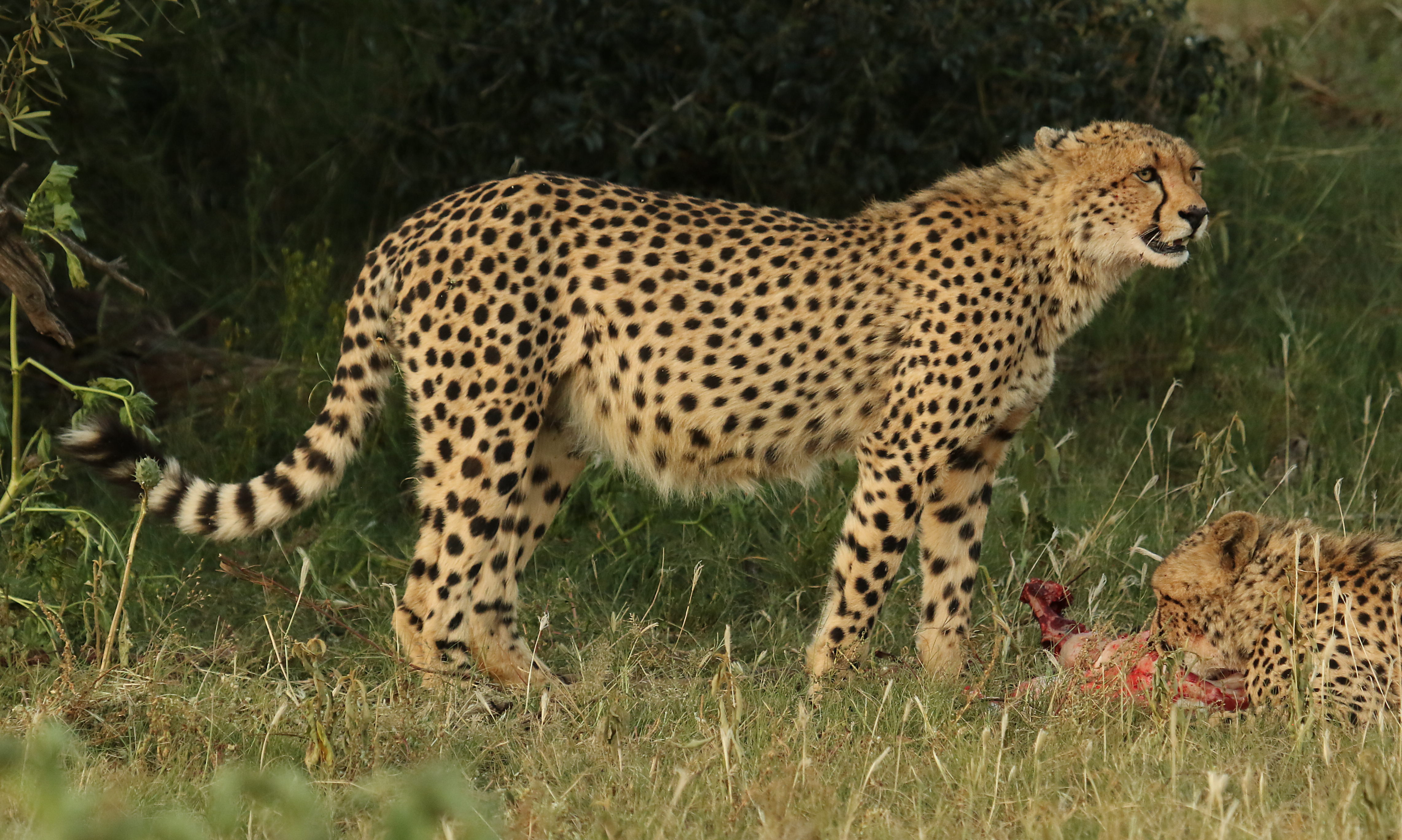 Cheetah, Acinonyx jubatus, at Pilanesberg National Park, Northwest Province, South Africa.